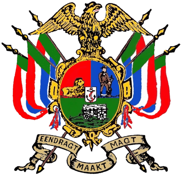 Illustration of arms of the South African Republic (Transvaal) from National and Provincial Symbols of the Republic of South Africa by F G Brownell. Information on arms and flag from National and Provincial Symbols, historical information from various articles in the Standard Encyclopædia of Southern Africa (Nasou).